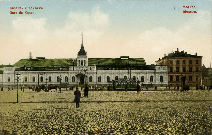 pre-revolutionaty russian postcard of Kazansky Rail Terminal